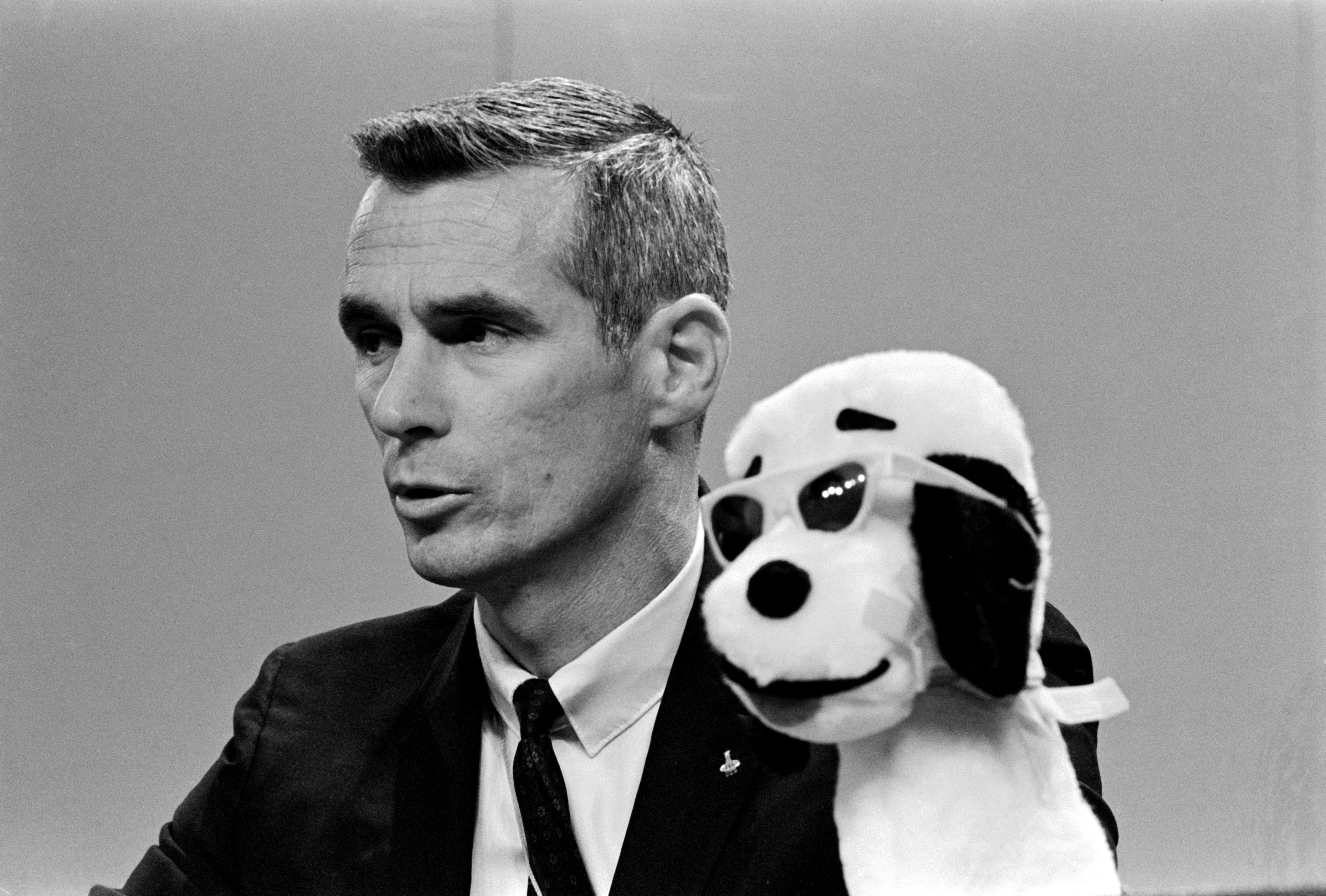 NASA astronaut Gene Cernan, lunar module pilot for the Apollo 10 mission to the Moon, with a Snoopy puppet at an April 1969 news conference. "Snoopy" was the name of the Apollo 10 lunar module. NASA photo S69-32037 in public domain.